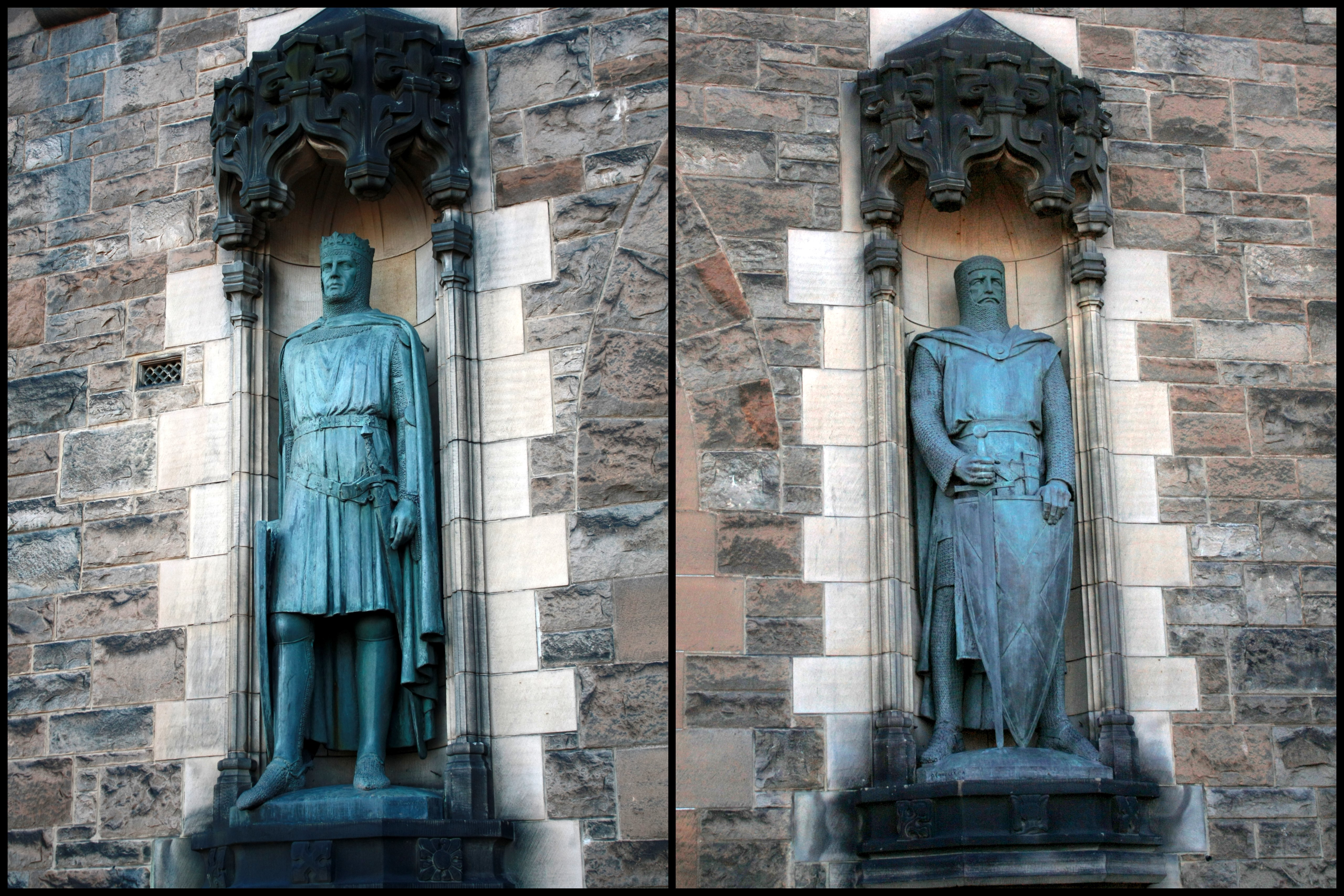 Statues of Robert the Bruce and William Wallace on the gate of Edinburgh Castle